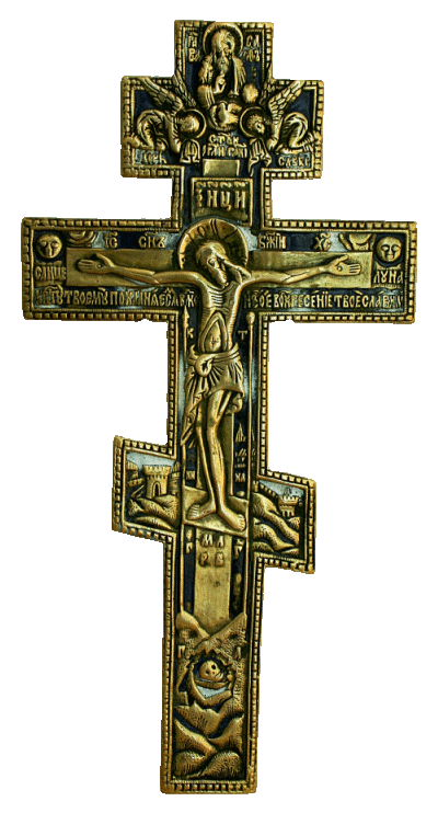 A Russian Orthodox blessing cross Fotografiert von Benutzer HoKaff